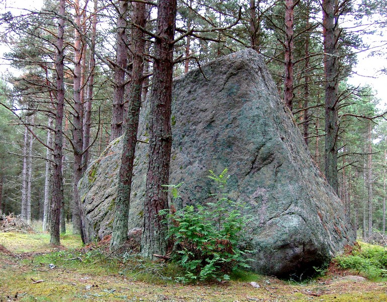 Kotkakivi boulder at island Prangli.